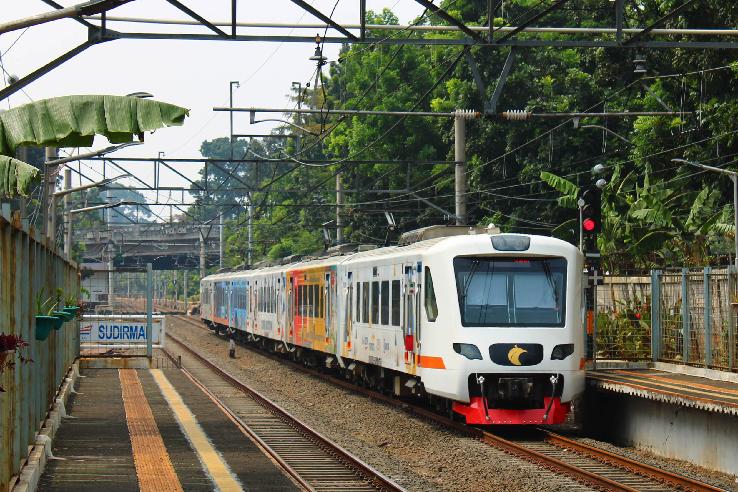 EA203 series EMU used for the Soekarno-Hatta Railink service passes the Sudirman Station to reverse direction back to BNI CIty Station.